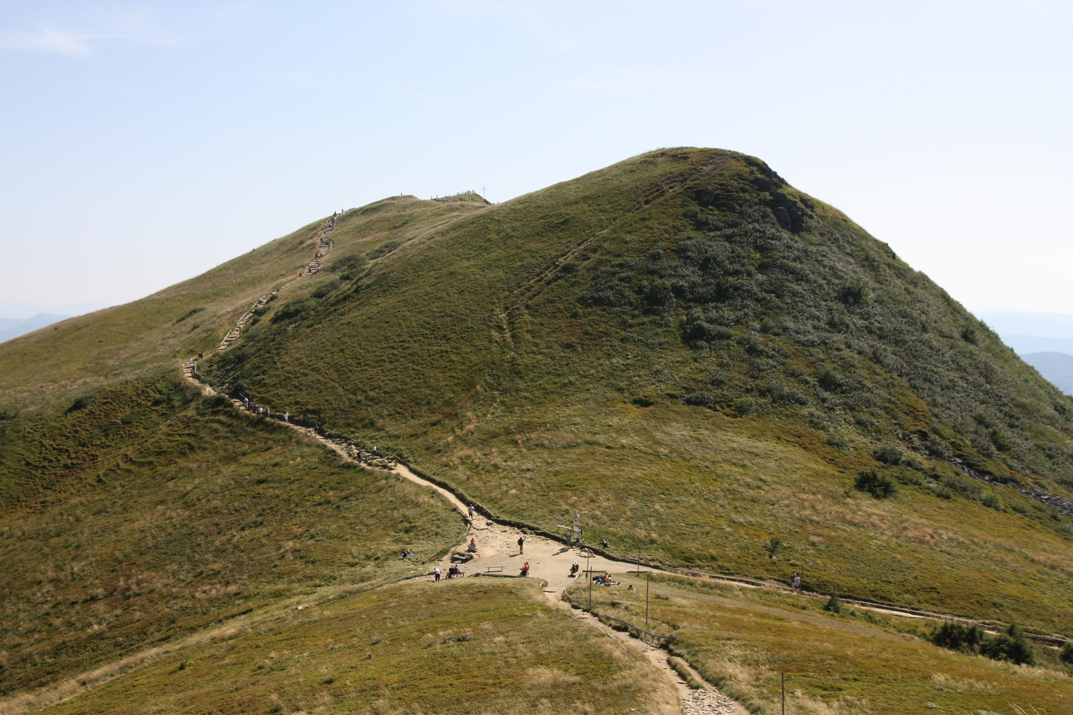 Mountain pass under Tarnica.